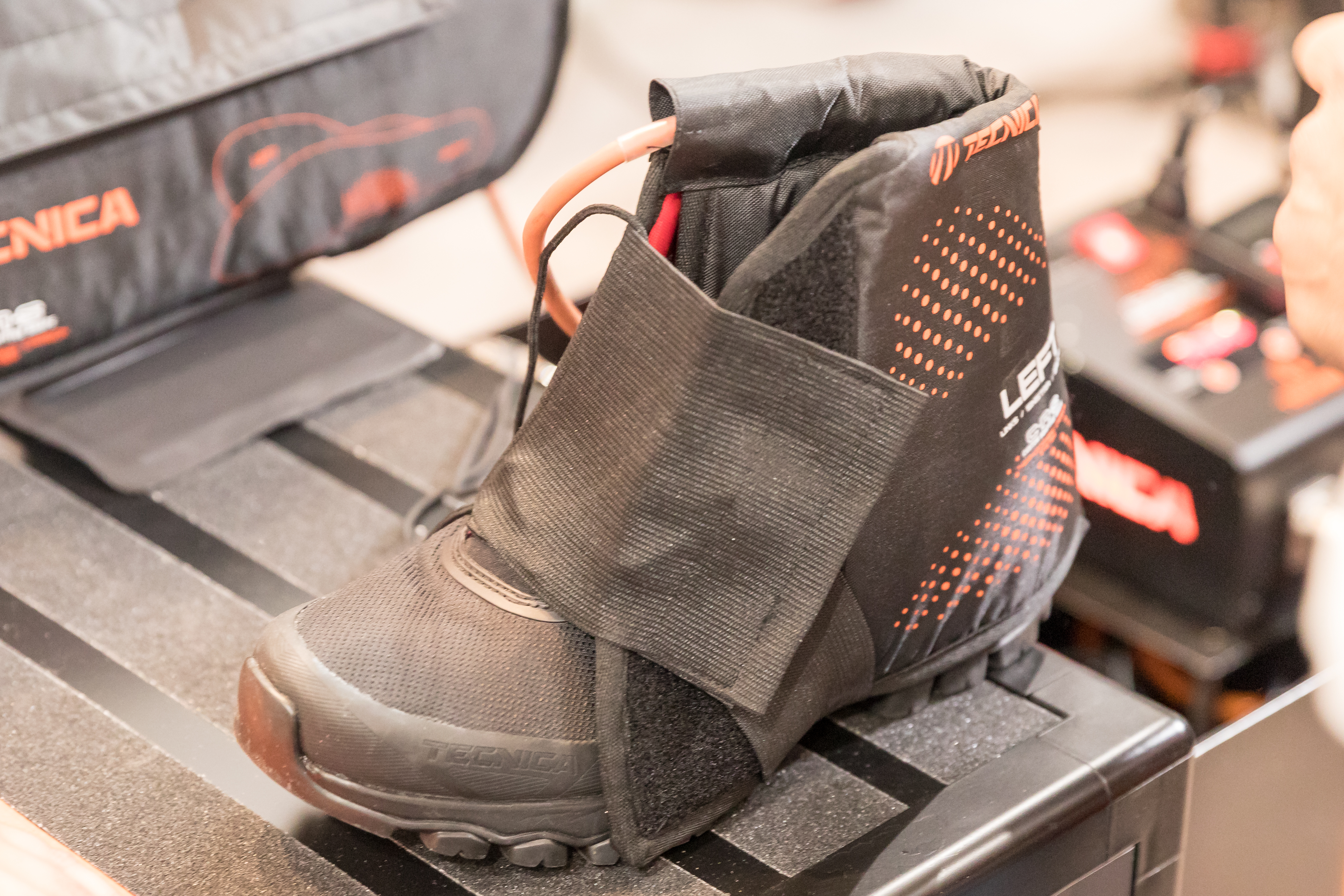 Press preview, OutDoor 2018